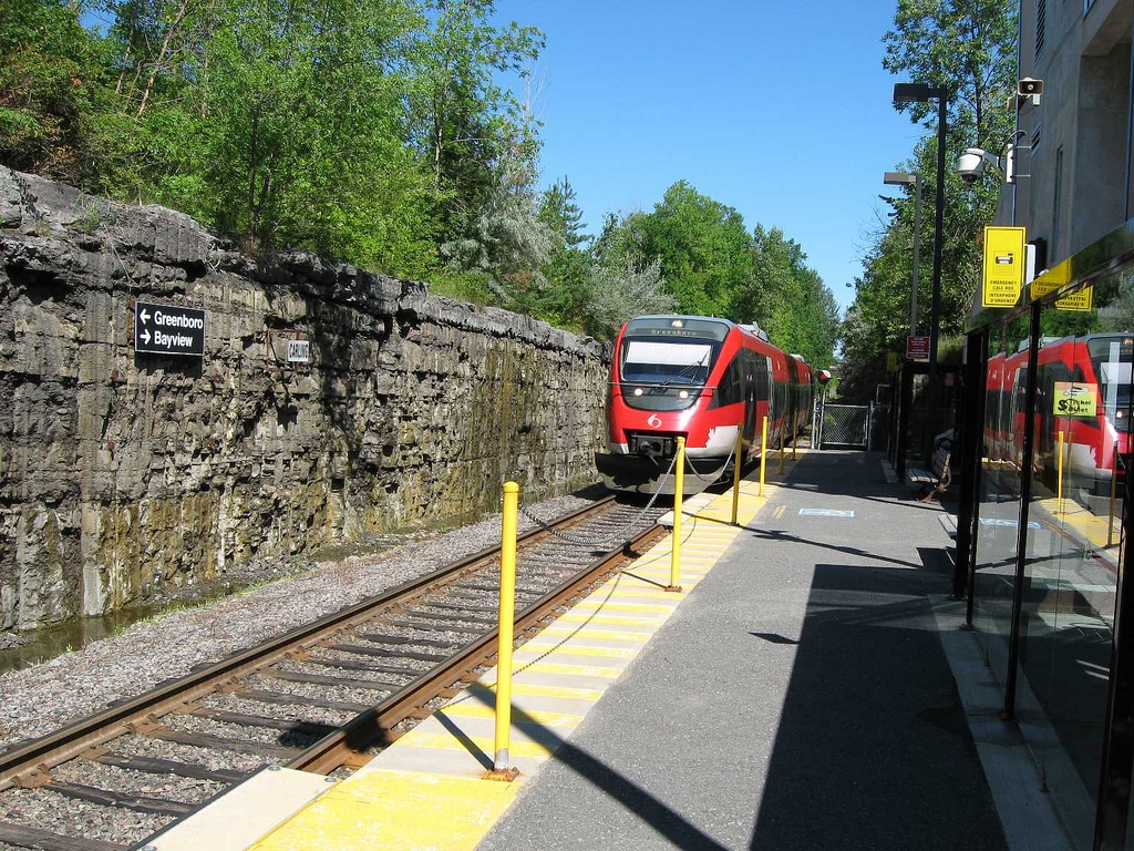 Carling Station of the O-Train in Ottawa, Ontario